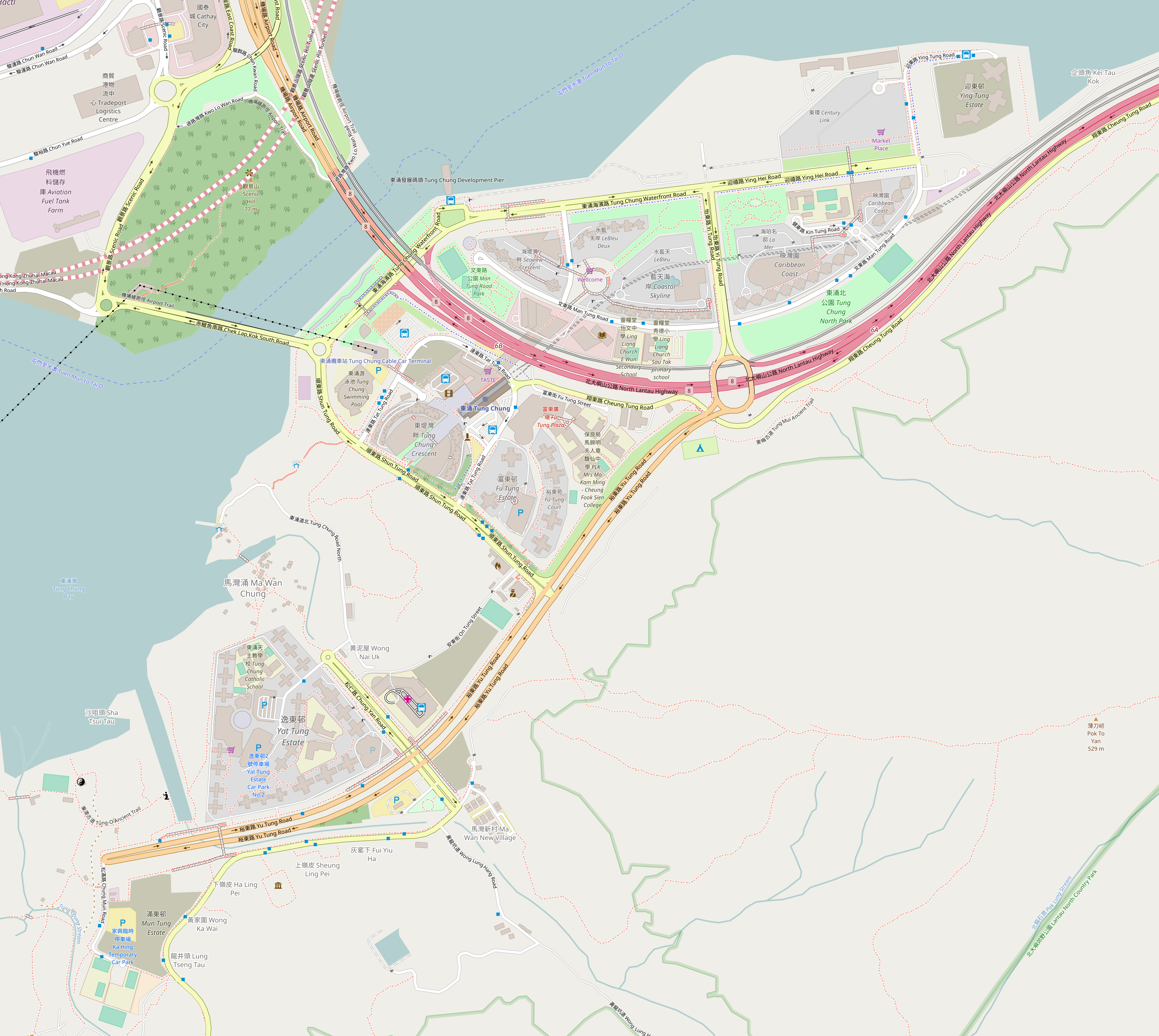 Map of Tung Chung, Hong Kong Geographic limits of the map: N: 22.2984° S: 22.2744° W: 113.9292° E: 113.9582°